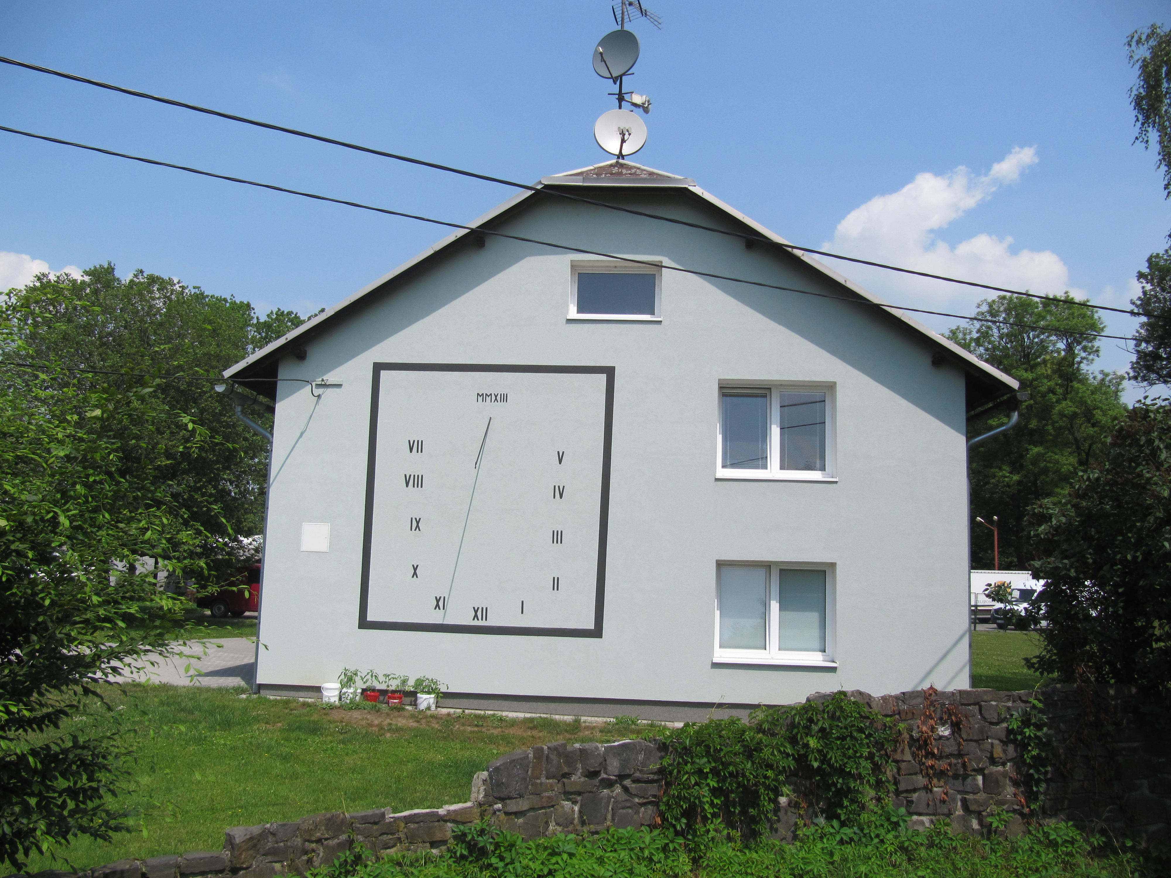 Bílovec, Nový Jičín District, Czech Republic, part Lhotka.